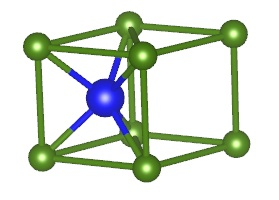 Figure of a primitive cell of MoS2